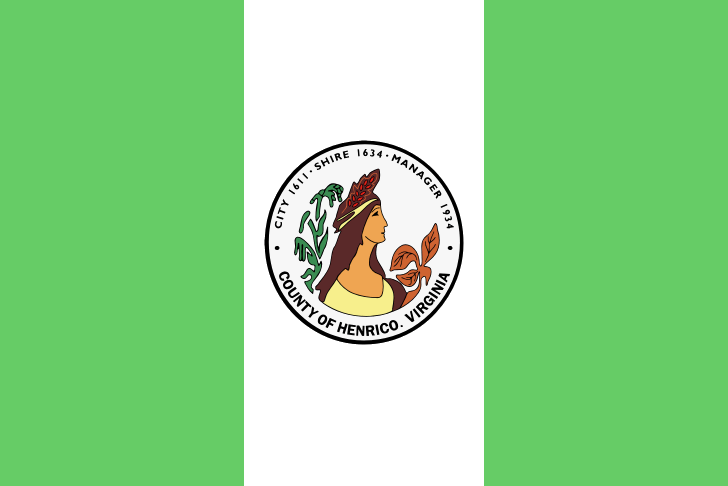 The official county flag of Henrico County, Virginia, adopted in December 1984.